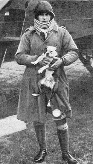 Photograph of Italian flying ace Giorgio Pessi, AKA Giuliano Parvis, taken in 1919. Note the altimeter strapped to his leg.